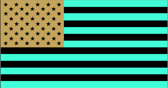 US flag with inverted colors